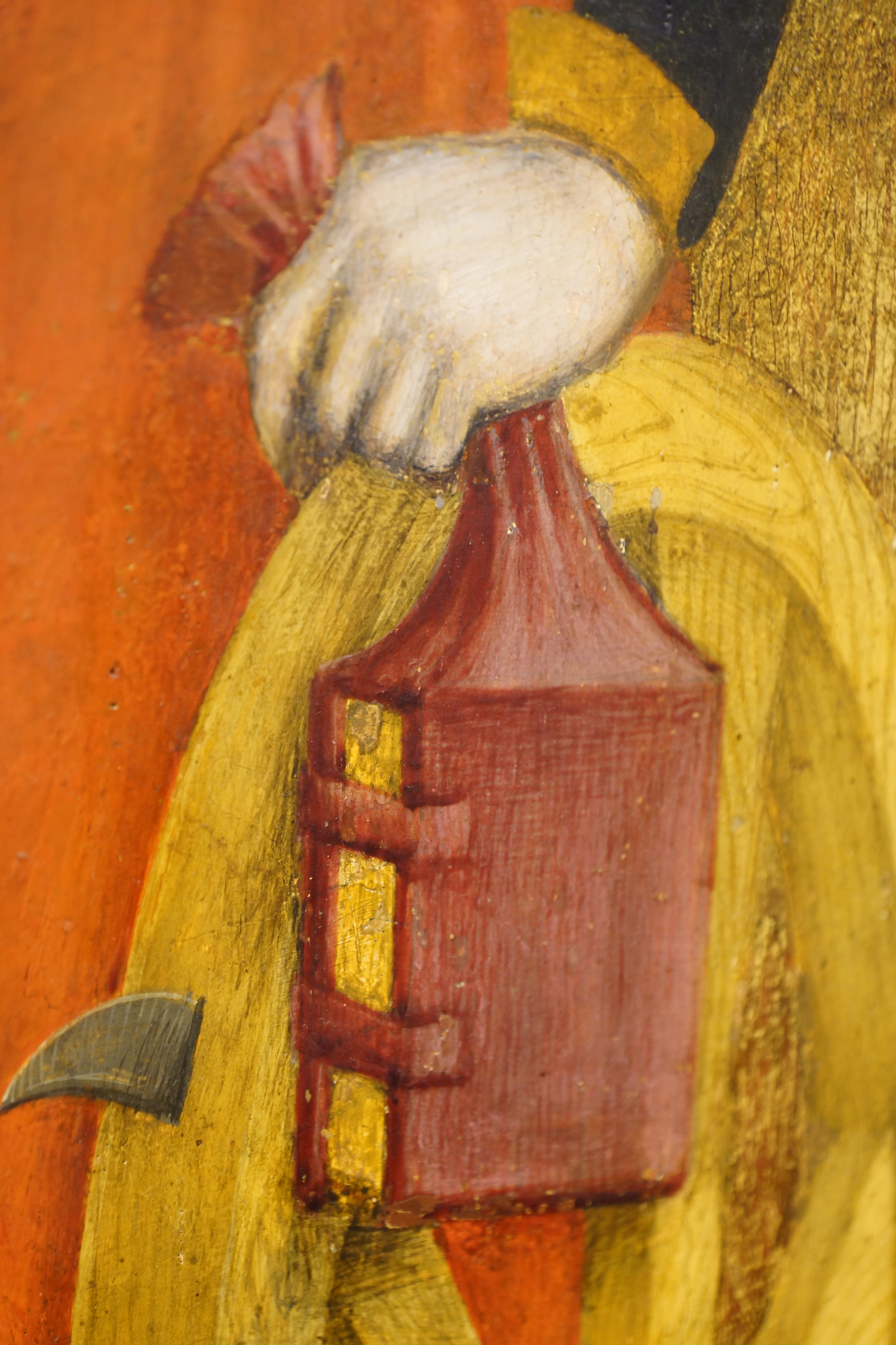 Catherine of Alexandria, with palm branch and girdle book, between two breaking wheels (detail)